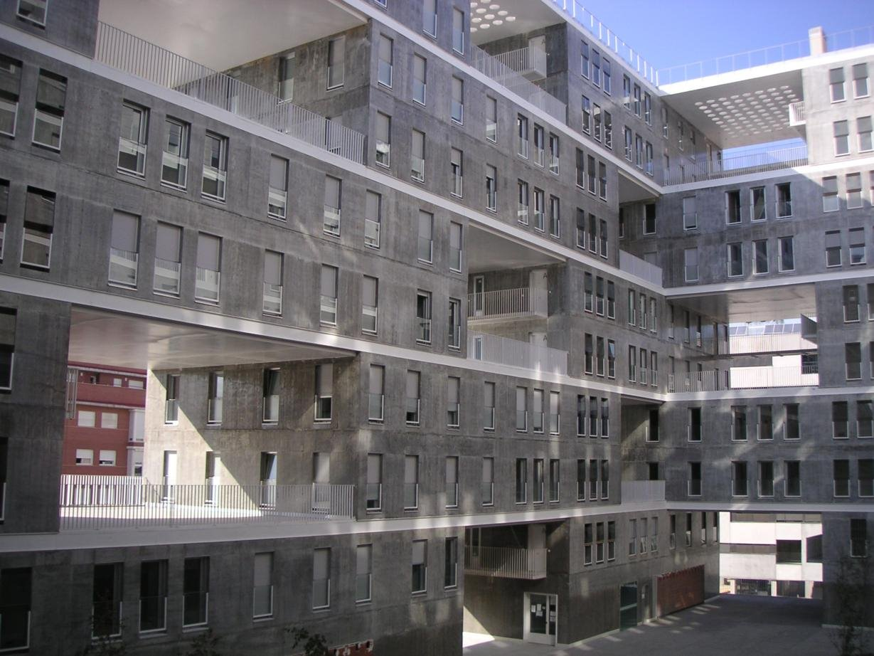 Interior of Edificio Celosía in Madrid (Spain).